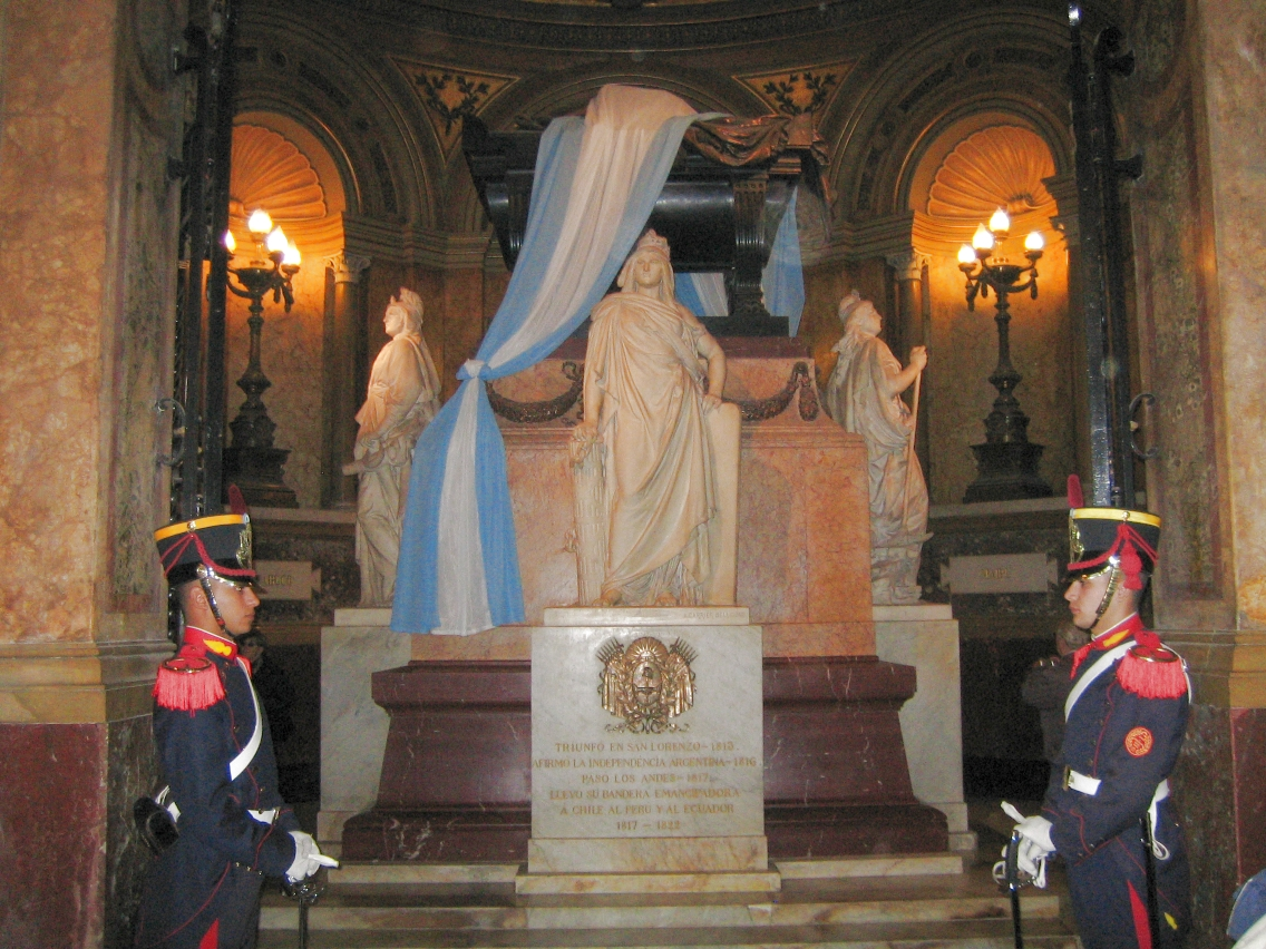 The burial place of General San Martin